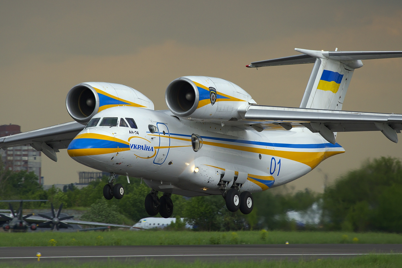 Take-off in amazing light prior to thunderstorm. Hi-res image - 1600 pix.